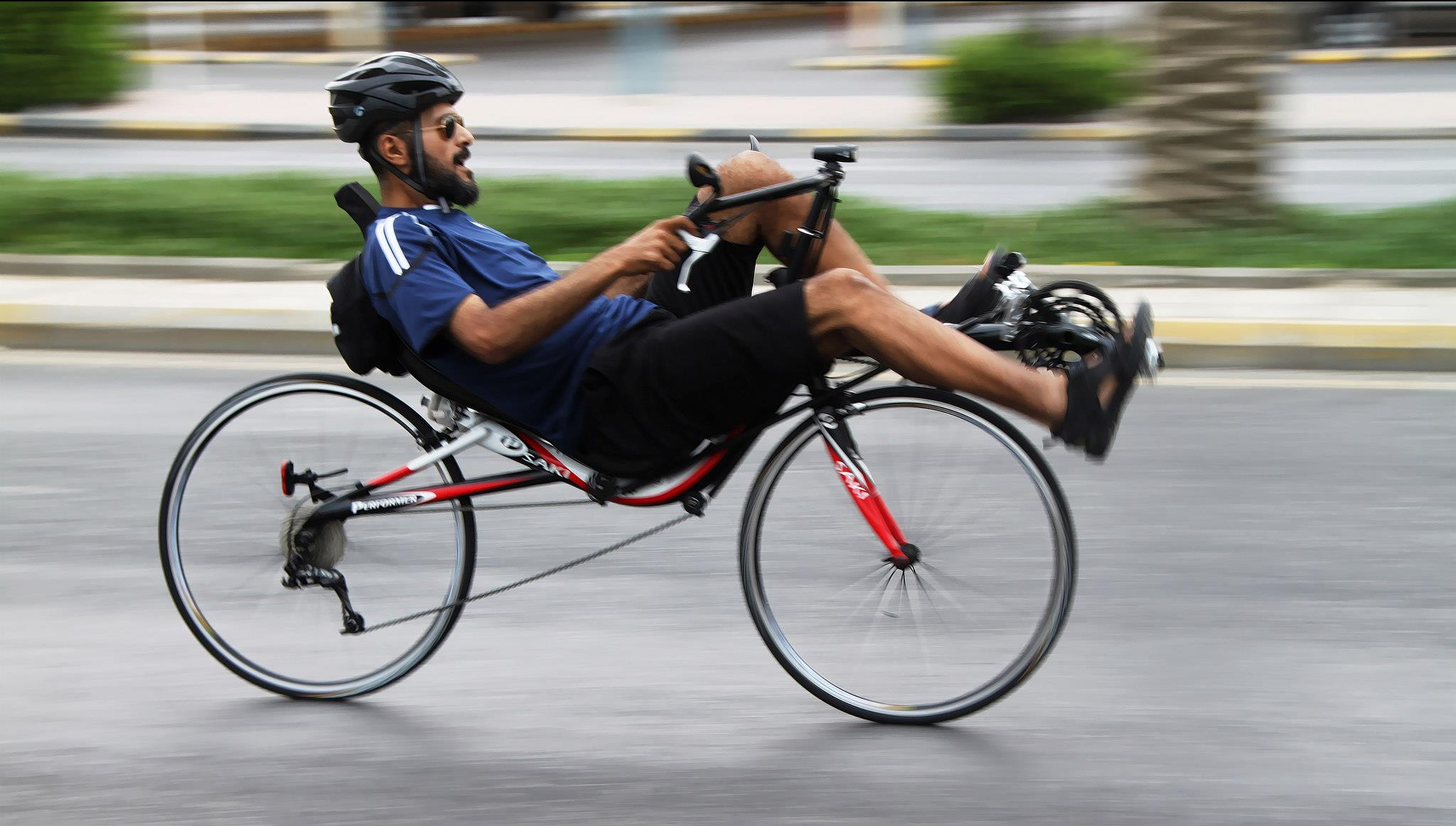 recumbent bicycle going fast